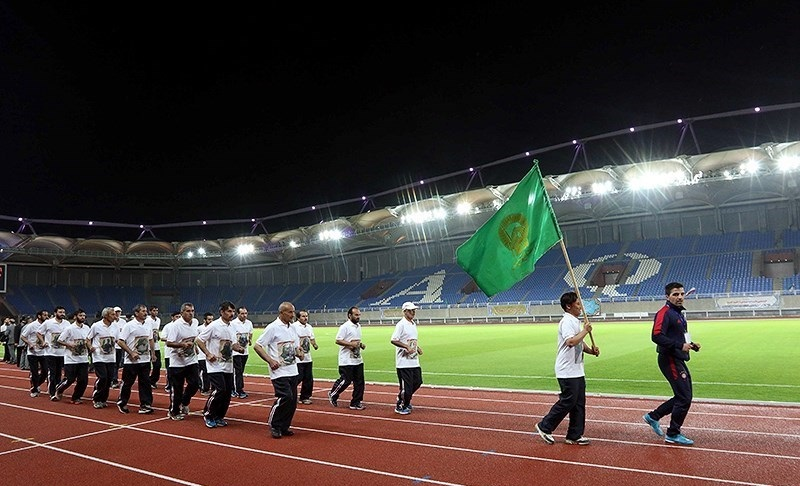 Opening of Imam Reza Stadium